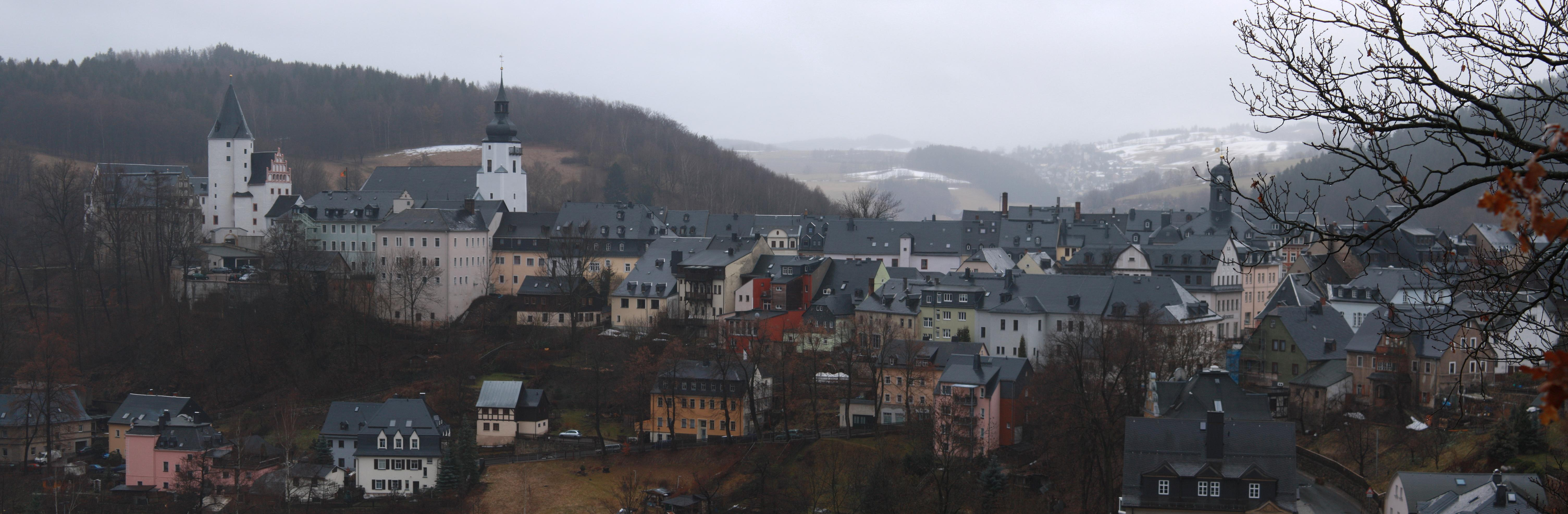 Schwarzenberg: Panoramic view from Totenstein (3 photograph stitch made with Hugin)